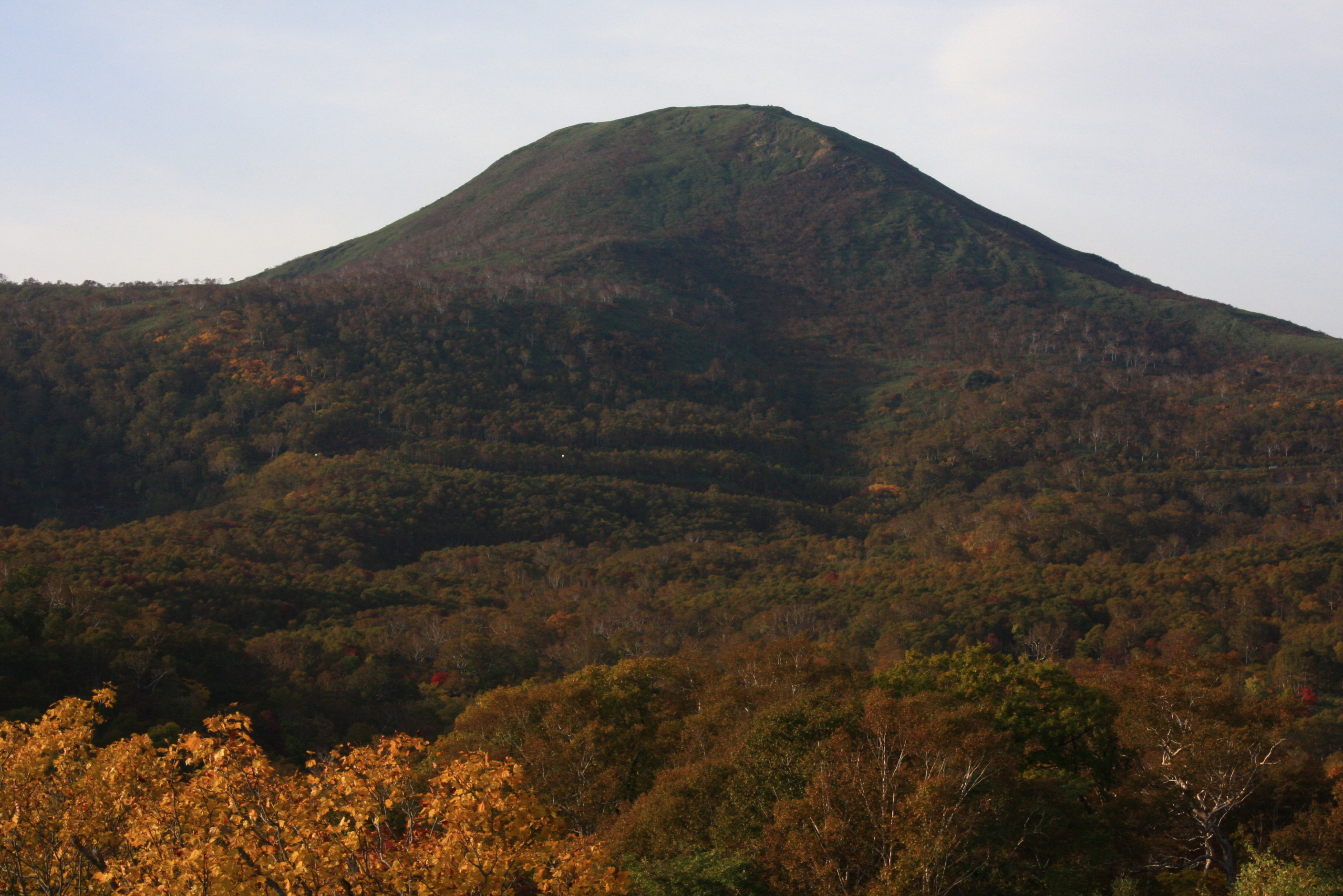 Mount Chise (Chisenupuri) as seen from Mount Nito